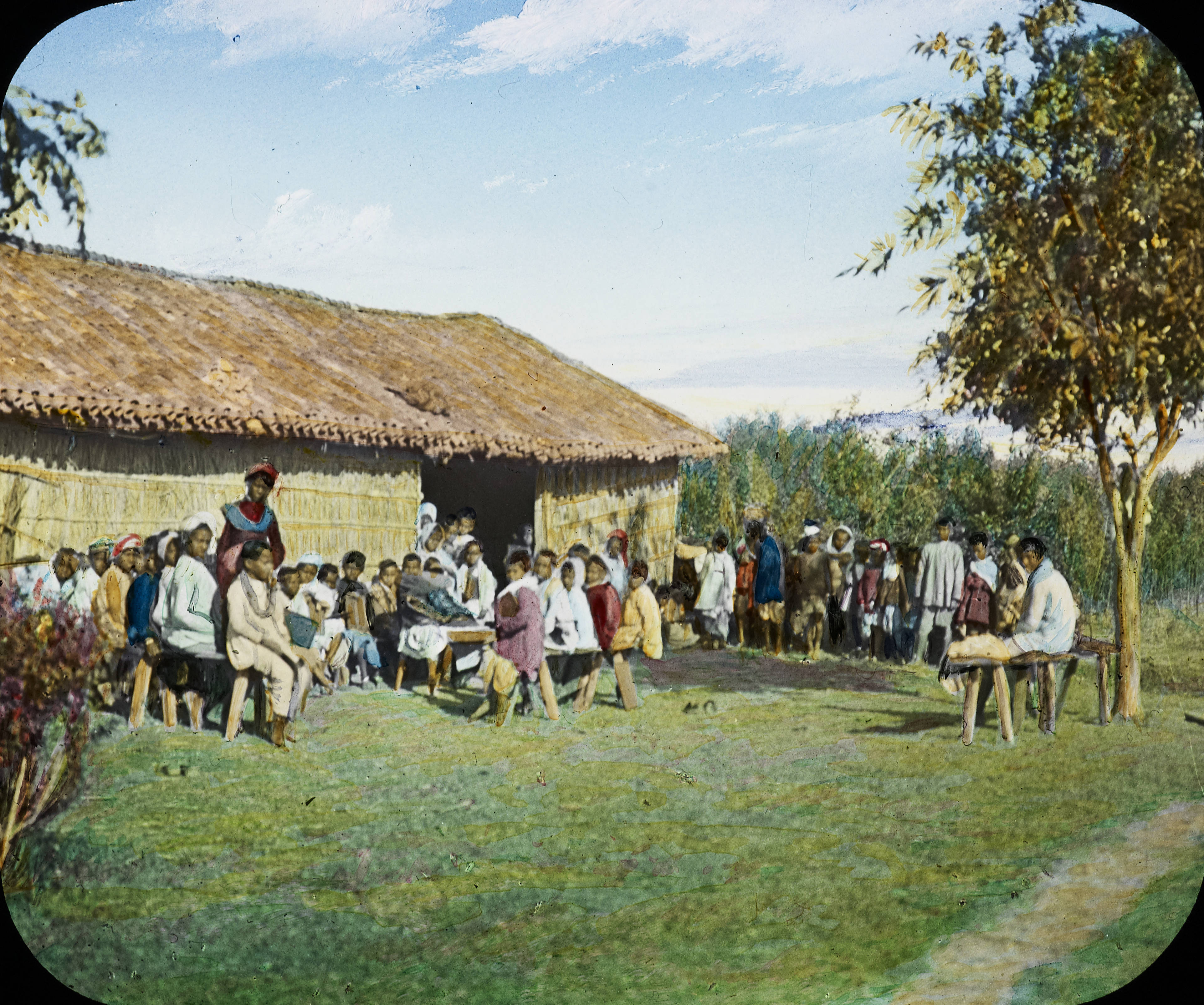 Chanpatia: Boy's school, India, 1914 Tinted lantern slide showing the school for boys run by Regions Beyond Missionary Union in Chanpatia, Bihar, India. The school is a thatched building with a tiled roof, and boys sit on benches and stand on the grassland immediately in front of the school. Chanpatia was opened up as a mission district by Regions Beyond Missionary Union in 1905. This slide comes from a collection created by missionaries from Regions Beyond Missionary Union, an interdenominational Protestant evangelical mission working in northeast India (Bihar and Orissa) and Nepal. Photographer: Unknown Filename: IMP-CSCNWW33-OS14-62.tif Coverage date: 1910/1920 Subject (unesco): Missionary work; Education Part of collection: International Mission Photography Archive, ca.1860-ca.1960 Part of subcollection: Photographs from the Centre for the Study of World Christianity, University of Edinburgh, U.K., ca.1900-ca.1940s Subject (corporate name): Regions Beyond Missionary Union Repository name: Centre for the Study of World Christianity Archival file: Volume3/IMP-CSCNWW33-OS14-62.tif Geographic subject (city or populated place): Chanpatia Repository address: The University of Edinburgh School of Divinity, New College, Mound Place, Edinburgh EH1 2LX, United Kingdom Geographic subject (country): India Format (aacr2): lantern slides 8.2 x 8.2cm Geographic subject (continent): Asia Rights: Contact the repository for details. Part of series: Regions Beyond Missionary Union. India captioned lantern slides (CSCNWW33/OS14) Repository Date created: 1910/1920 Publisher (of the digital version): University of Southern California. Libraries Subject (aat genre): exterior views Format (aat): lantern slides; photographs Geographic subject (state): Bihar Access conditions: Geographic subject: educational facilities File: CSCNWW33/OS14/62 Subject (lcsh): Boys; Schools; Religious education